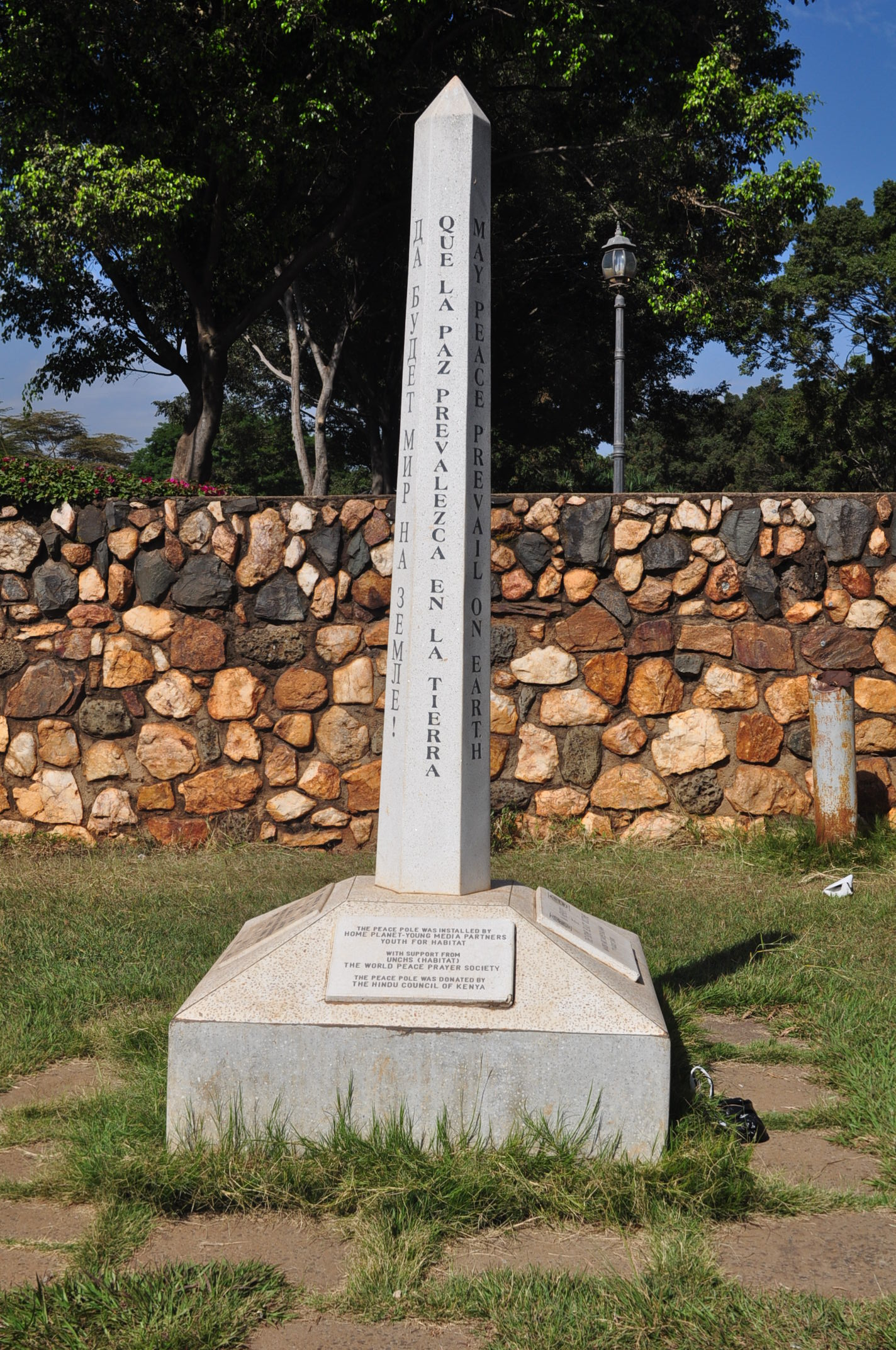 the monument was put up in memory of the 7th August 1998 bomb blast victims from Nairobi and Dar es salaam